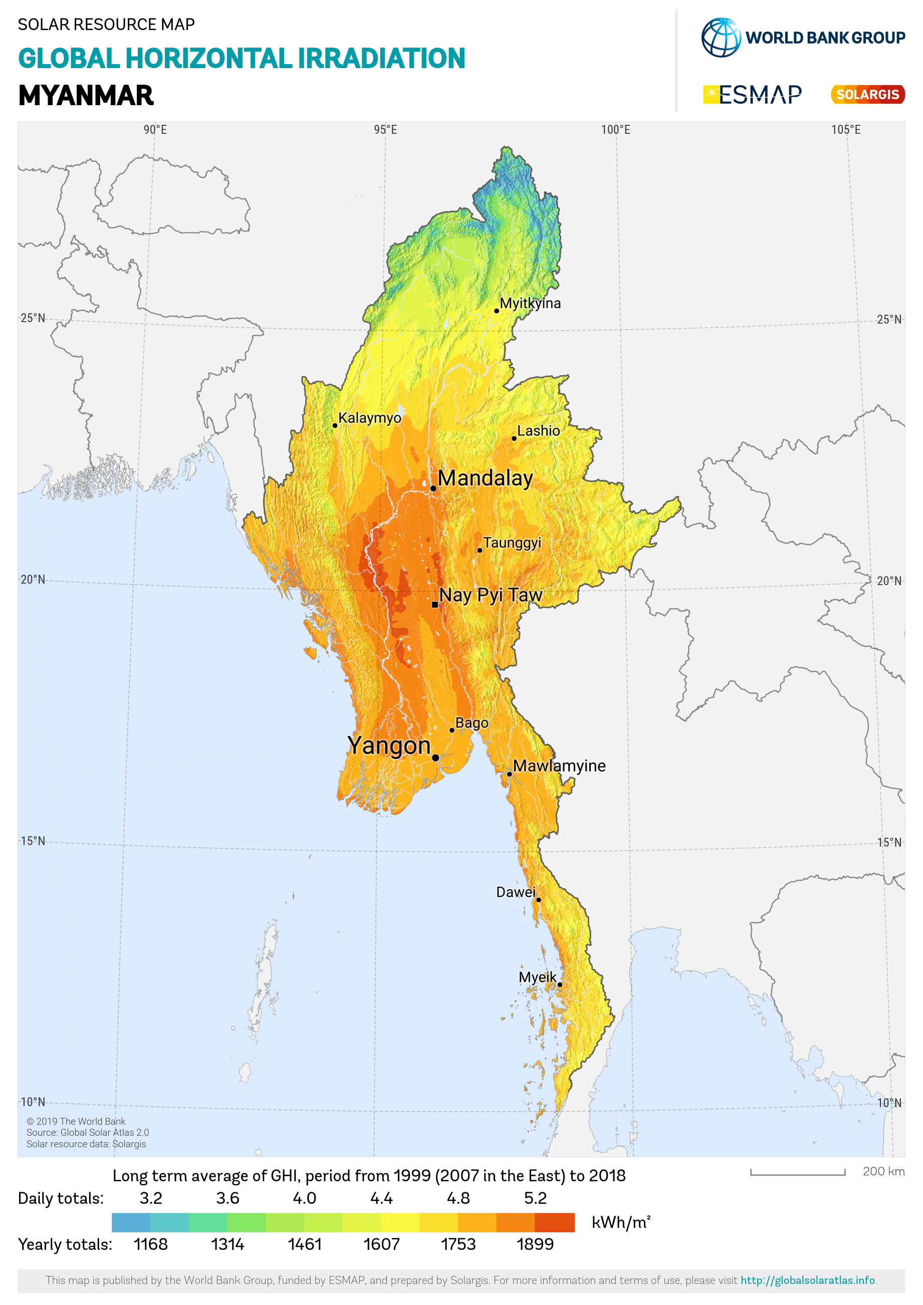 Global Horizontal Irradiation of Myanmar